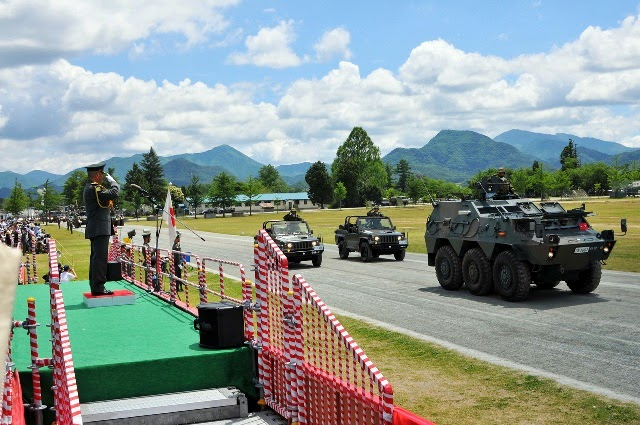 Title 25.06.23 ６Ｄ・第６師団５１周年・神町駐屯地５７周年記念行事堂々の観閲行進を披露する第６師団の精鋭、それに応える岡部師団長.jpg Album Events and Public Relations (イベント・行事・広報活動等) 第６師団５１周年・神町駐屯地５７周年記念行事・観閲行進（第６師団・神町）